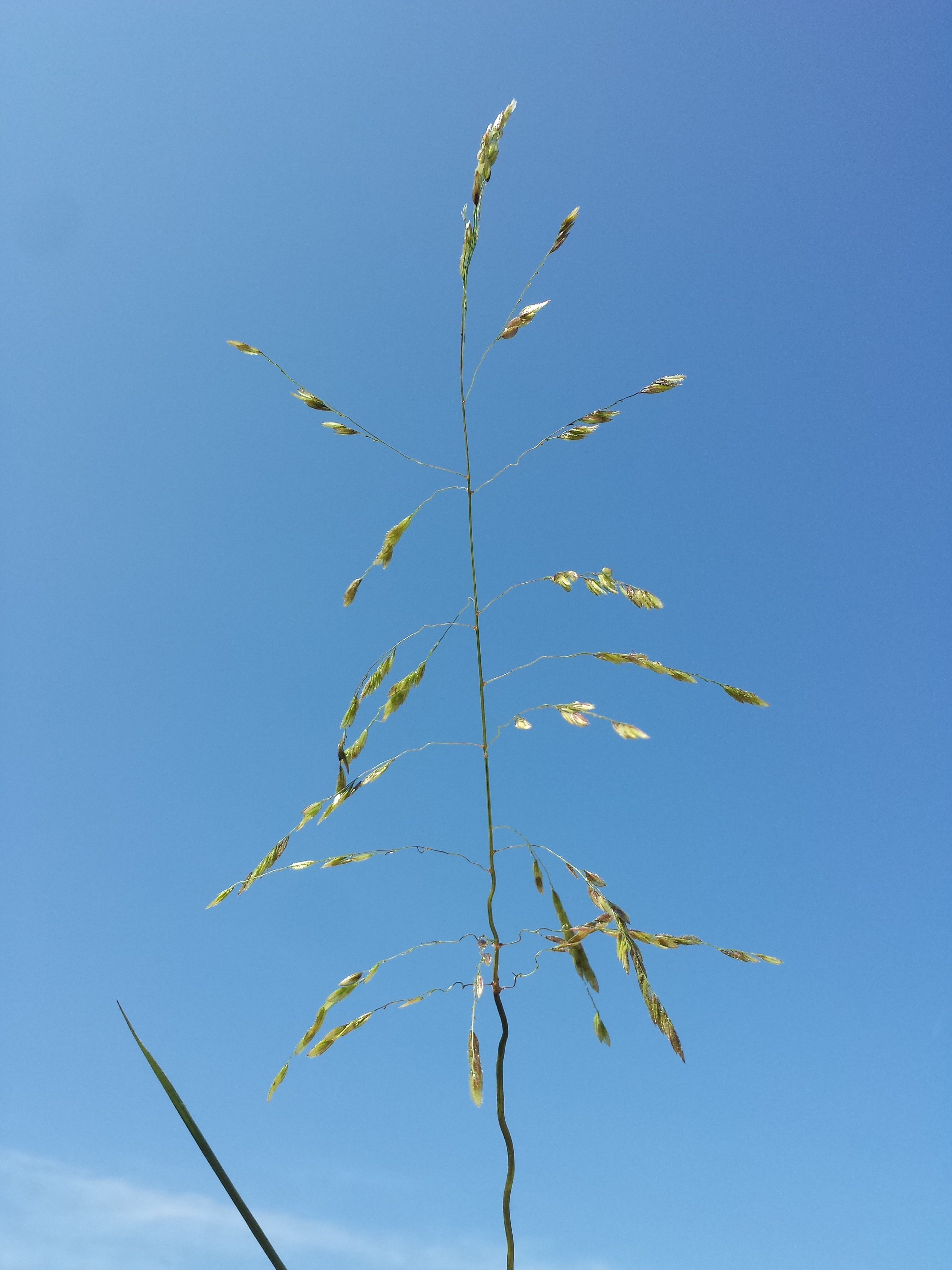 Inflorescence Taxonym: Leersia oryzoides ss Fischer et al. EfÖLS 2008 ISBN 978-3-85474-187-9 Location: Marchfeldkanal near Steinamangergasse, Wien-Floridsdorf - ca. 160 m a.s.l. Habitat: shore